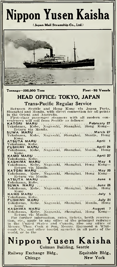 March 1918 Nippon Yusen Kaisha advertisement with ships and sailings from Seattle, Washington.